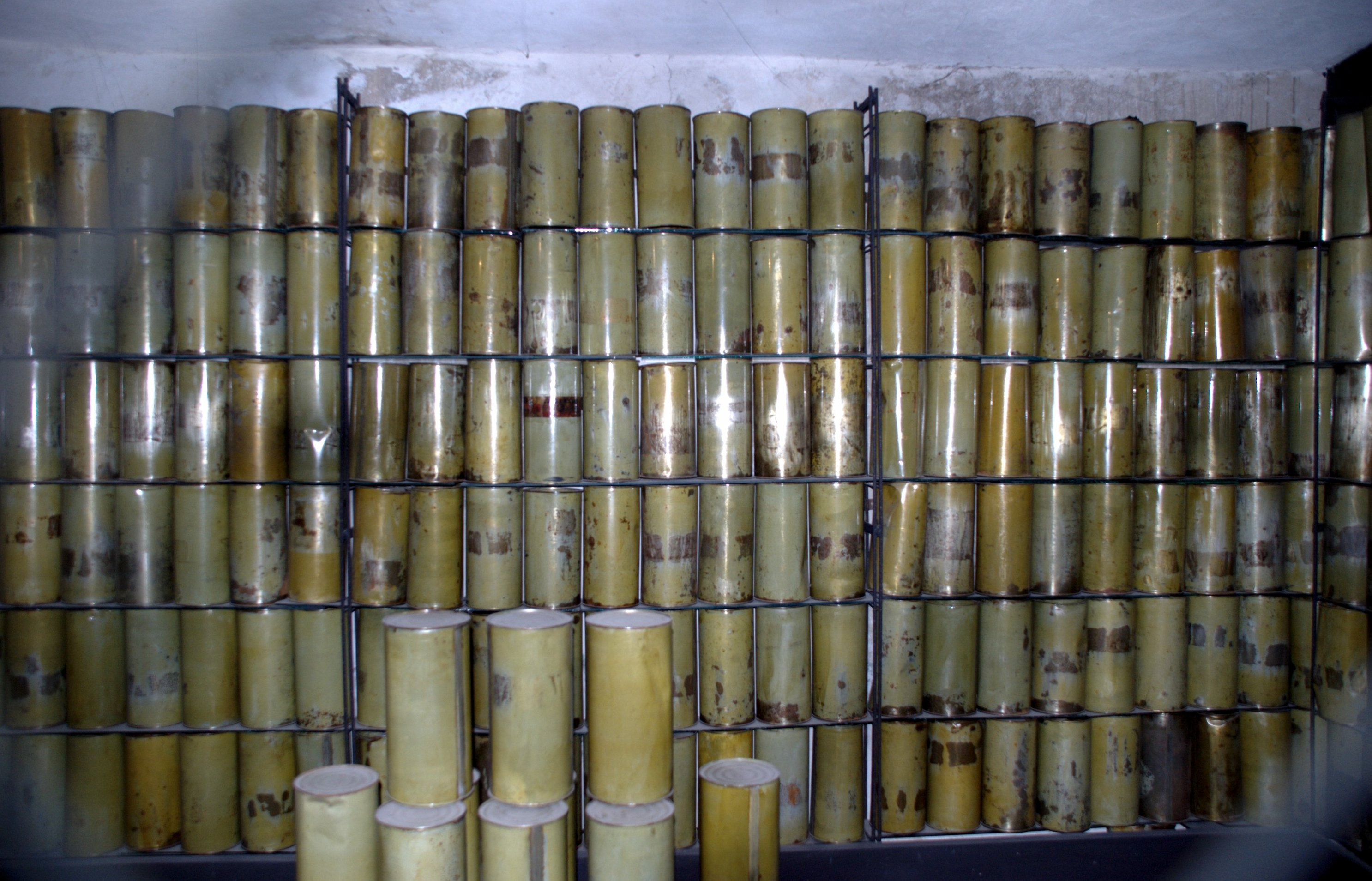 Cans of the Zyklon B compound